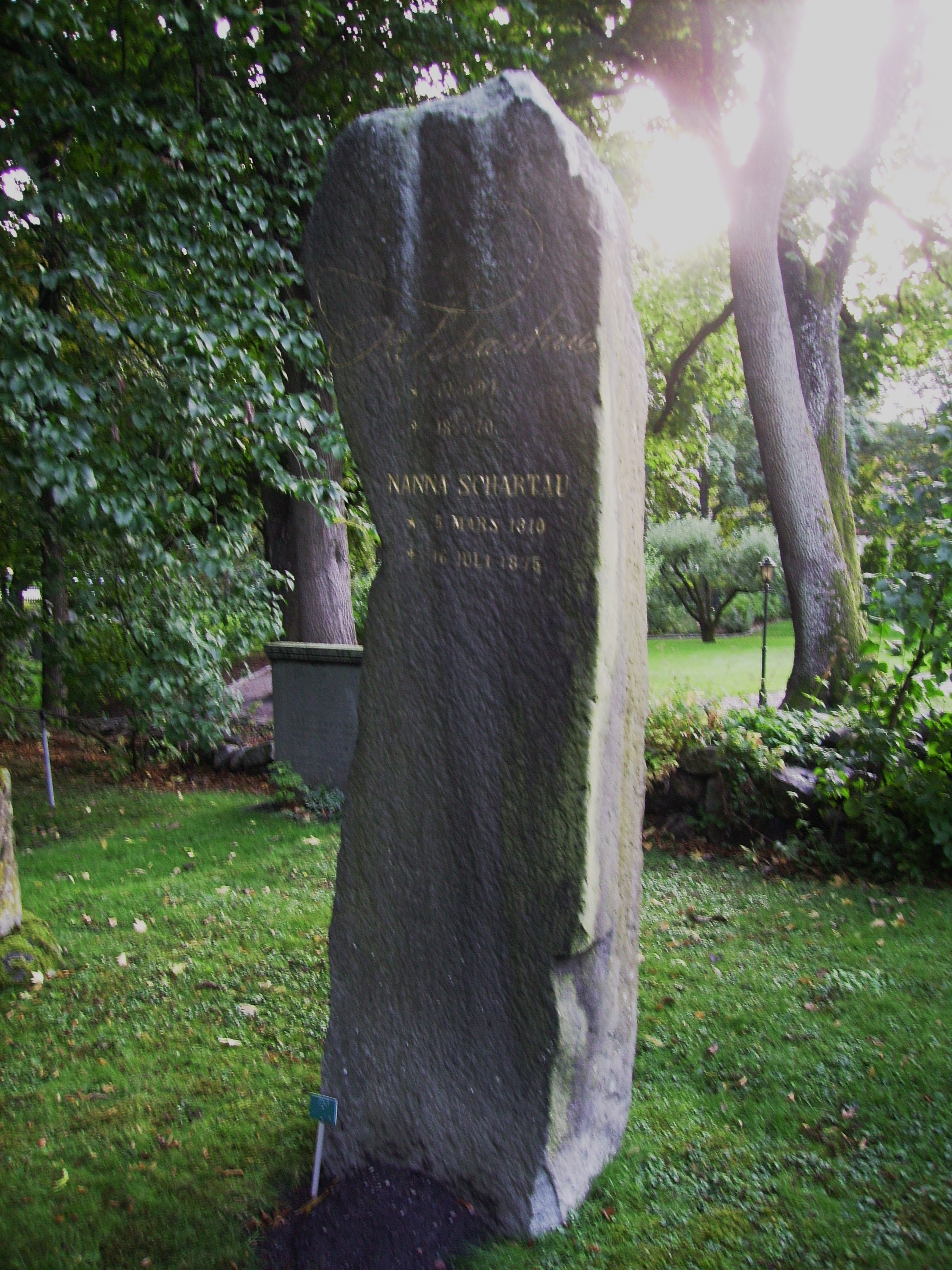 Picture of Frans Schartau's grave at Solna kyrkogård